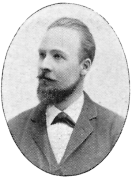 Image scanned from the book "Svenskt Porträttgalleri XX - Arkitekter, Bildhuggare, Målare m.fl. " ("Swedish Portrait Gallery XX - Architects, Sculptors, Painters, ") published 1901